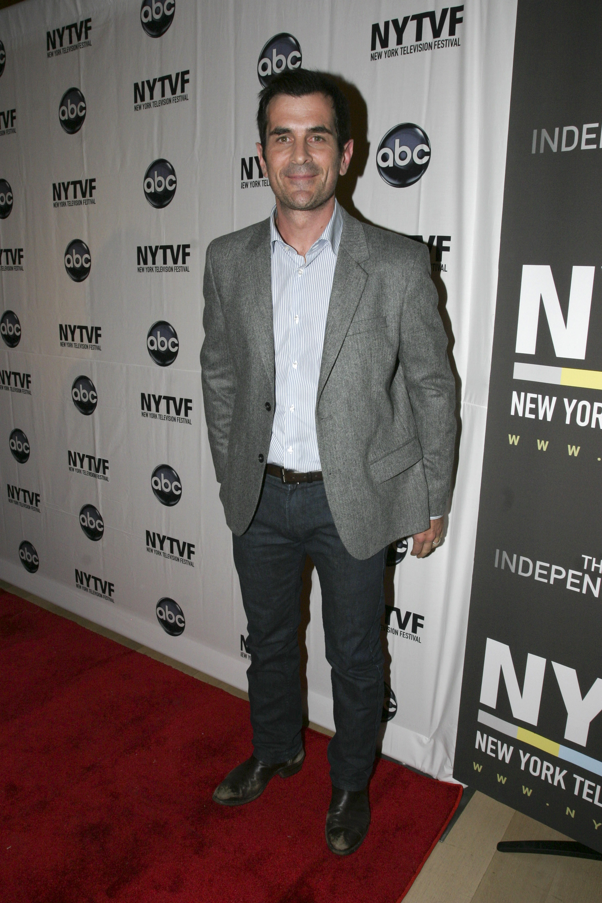 Ty Burrell at the New York Television Festival. © Rubenstein, photographer Martyna Borkowski